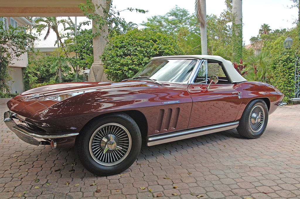 Shane Mattaway's photo of his 1965 Corvette 327/375HP Fuel Injected Roadster taken at his home on 9/13/2005 at 2:29PM with a Nikon D2X at 1/160 shutter speed and f/6.3 aperture at 20mm focal length.